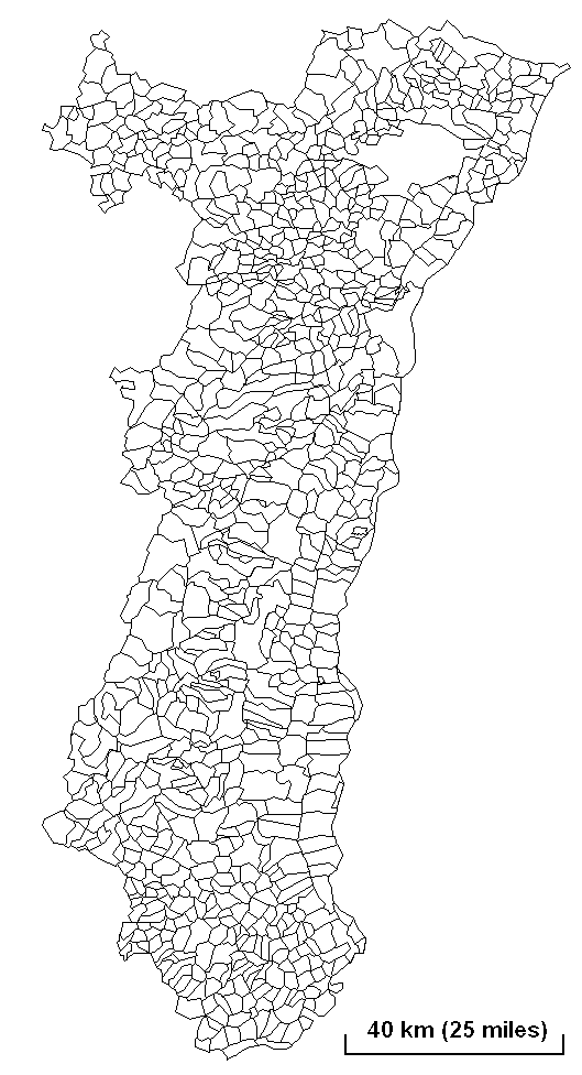 The 904 communes of Alsace. Map created by myself.